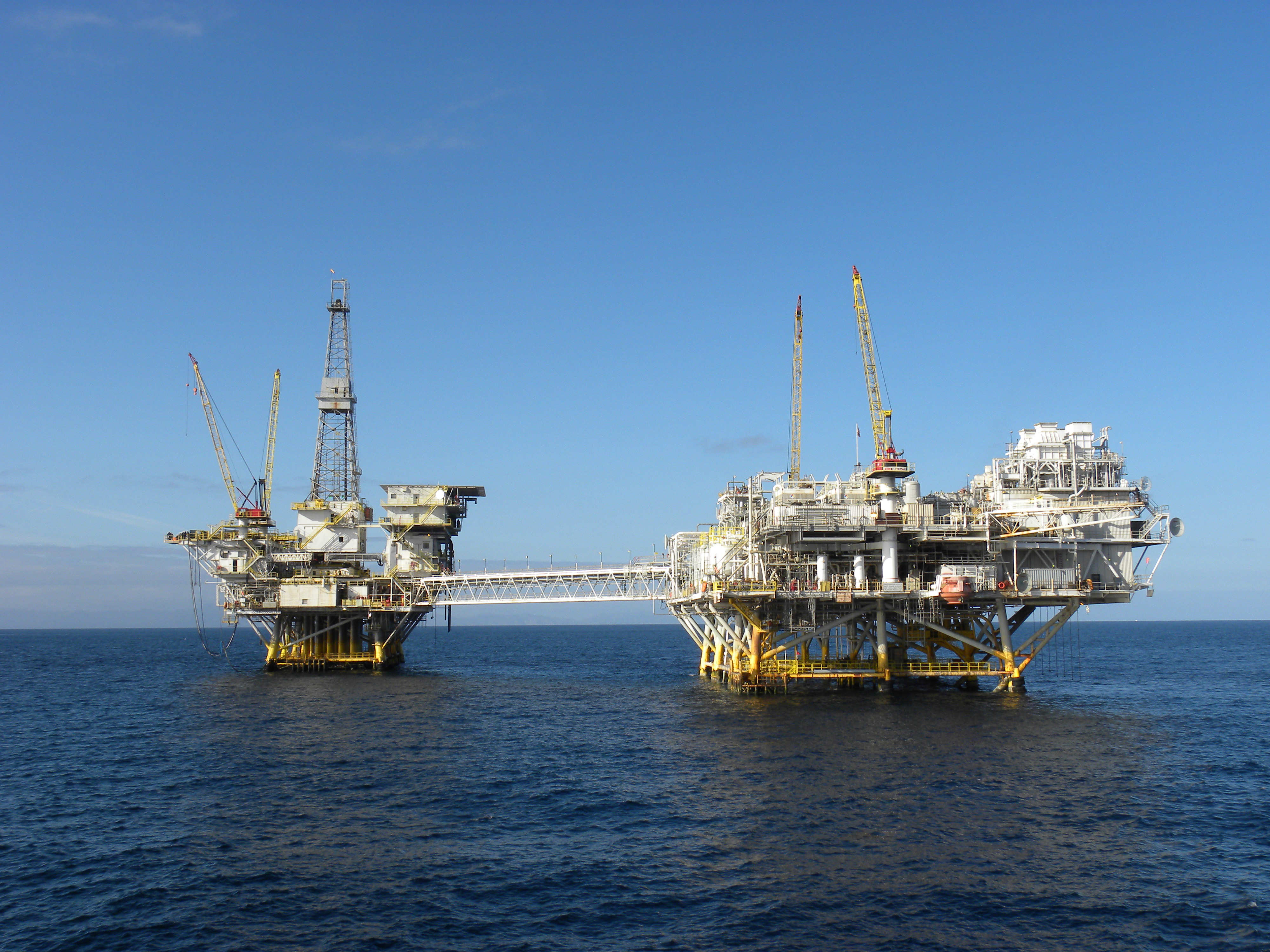 Platforms Ellen and Elly offshore near Long Beach, Calif in BSEE’s Pacific Region. Ellen (right) is a production platform connected by a walkway to Platform Elly (left), a processing platform for both Ellen and another platform, Eureka.